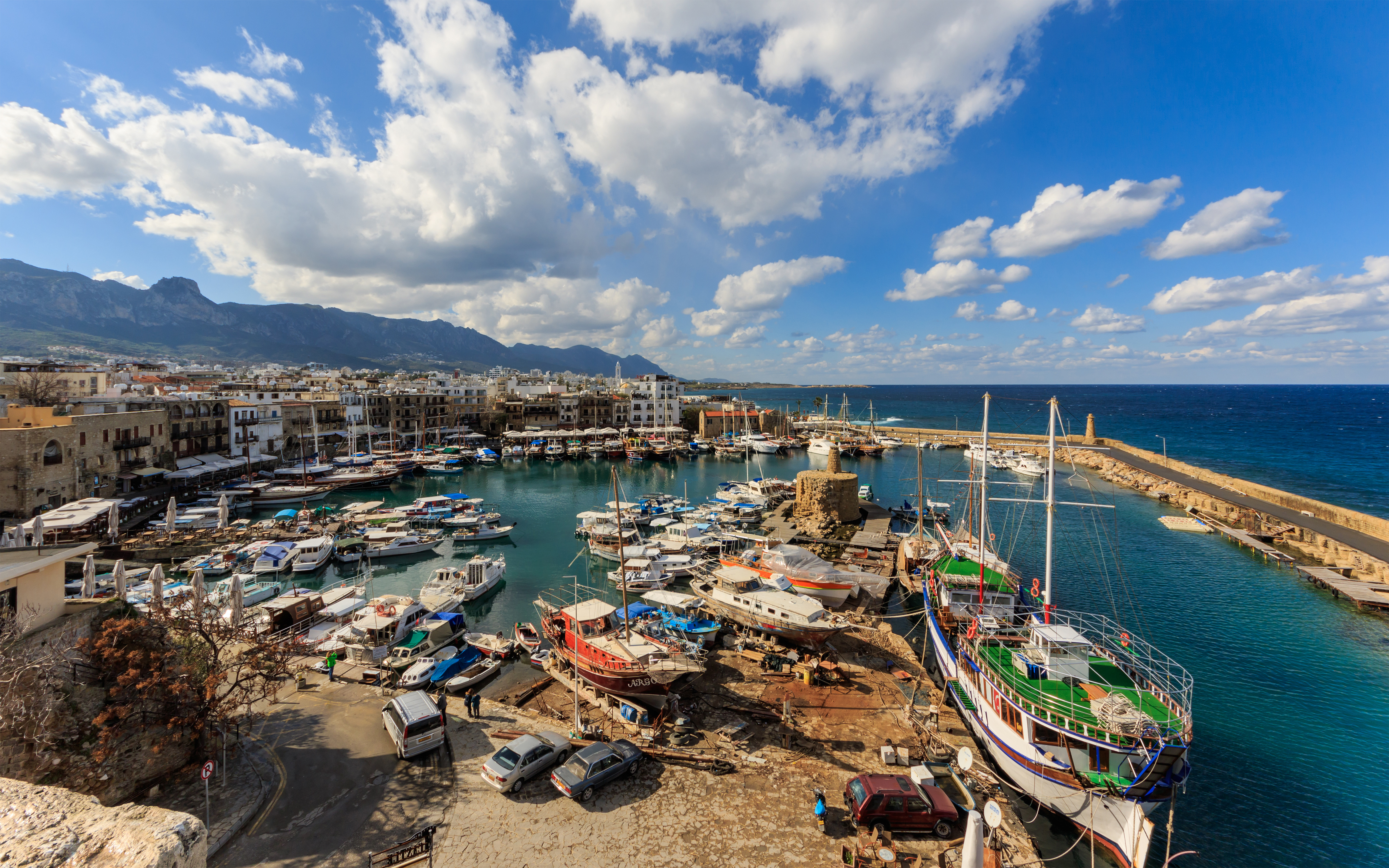 View of the old harbour from the castle in Kyrenia, Cyprus